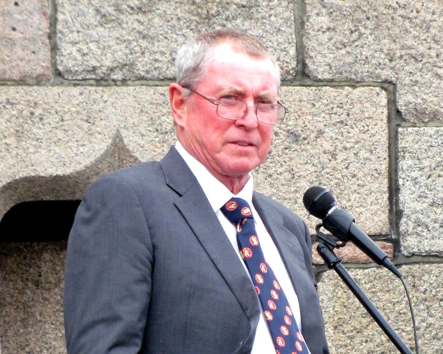 John Nettles (2013) - cropped